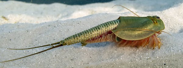 Triops australiensis